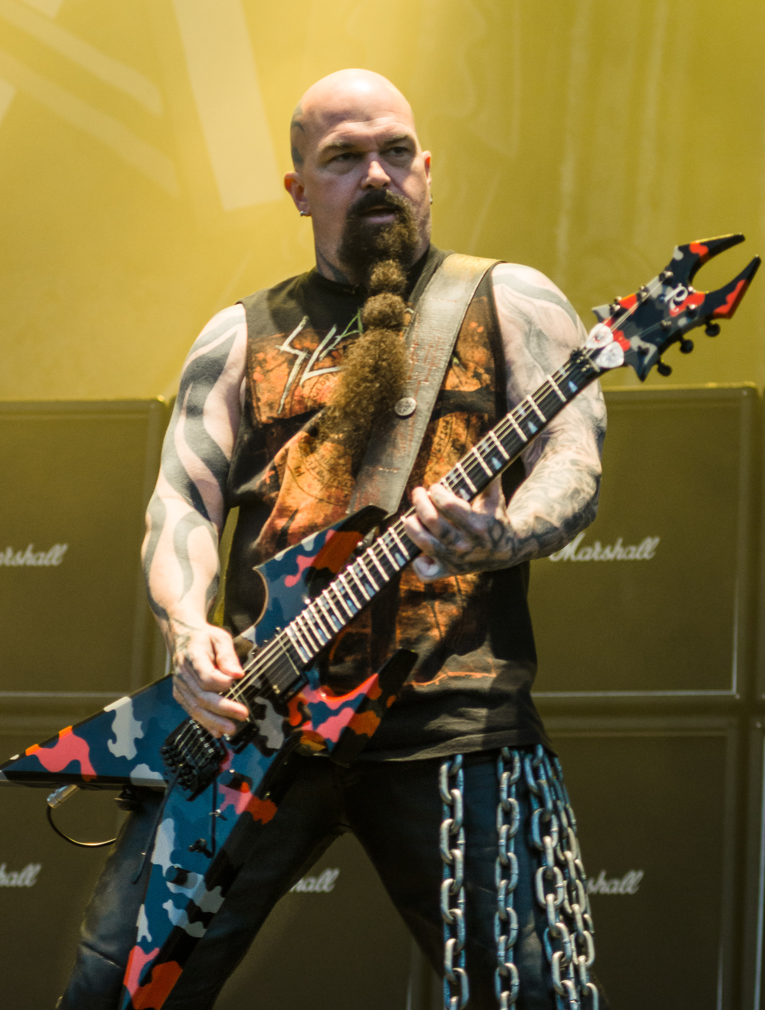 Kerry King, guitarist of Slayer at Ursynalia 2012 Festival, Warsaw, Poland.